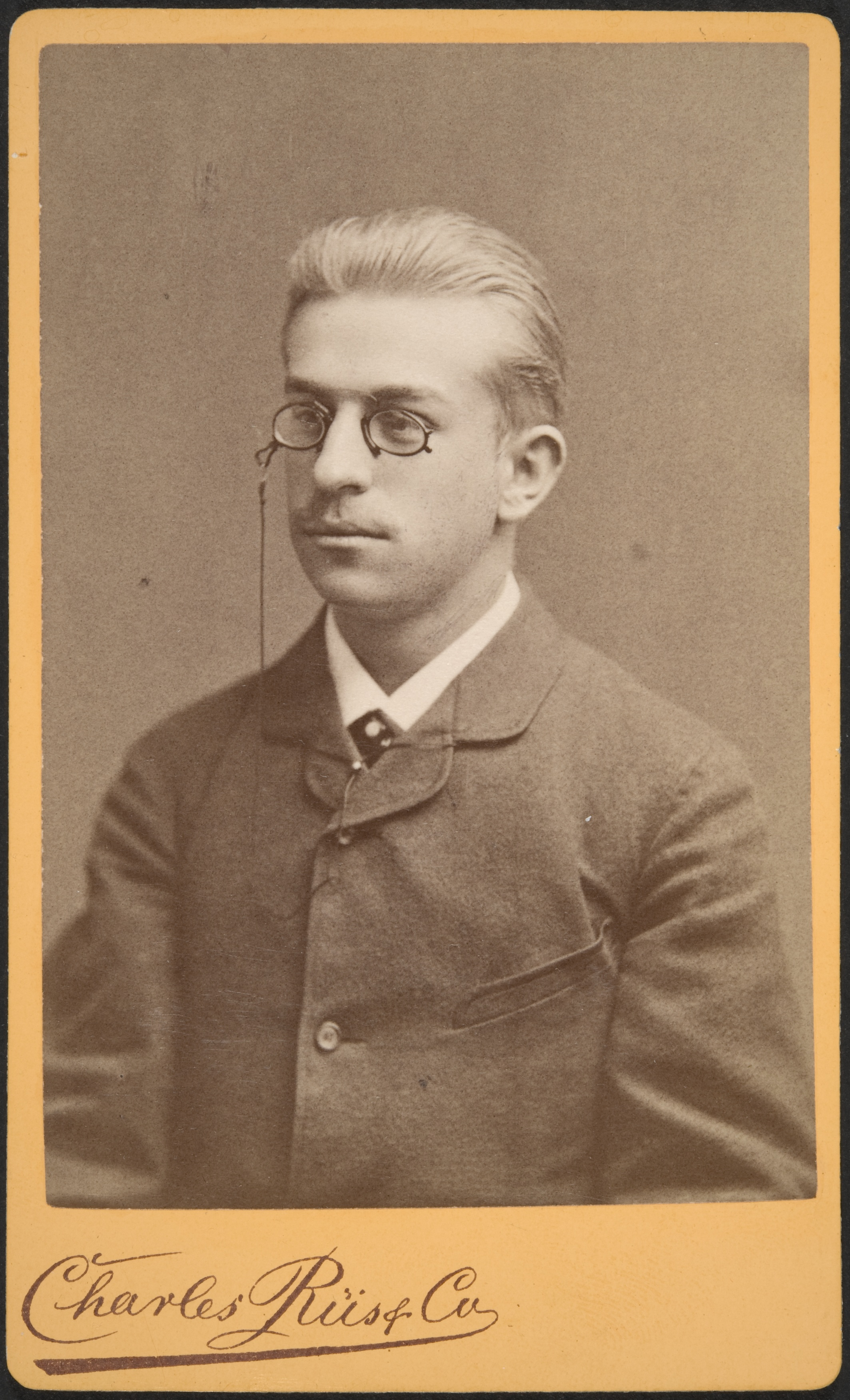 Photograph of the Finnish linguist Knut Hugo Pipping (1864–1944).